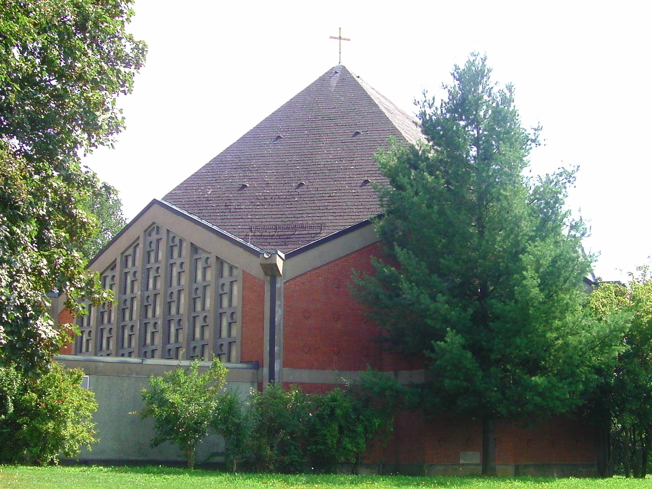 New Saint-Peter-Church in Tirschenreuth